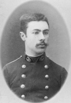 Image of French scientist André Blondel taken on his graduation as a student in 1888. Uploaded from Hebrew University of Jerusalem website. Original is in the Biblioteque Centrale of the Ecole Polytechnique, Paris.